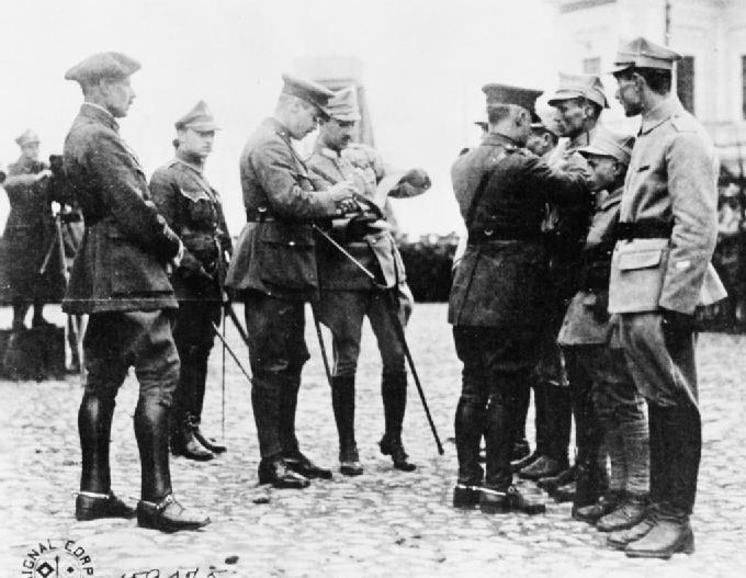 British officers conferring decoration for bravery upon Polish soldiers of so called Murmansk Battalion.